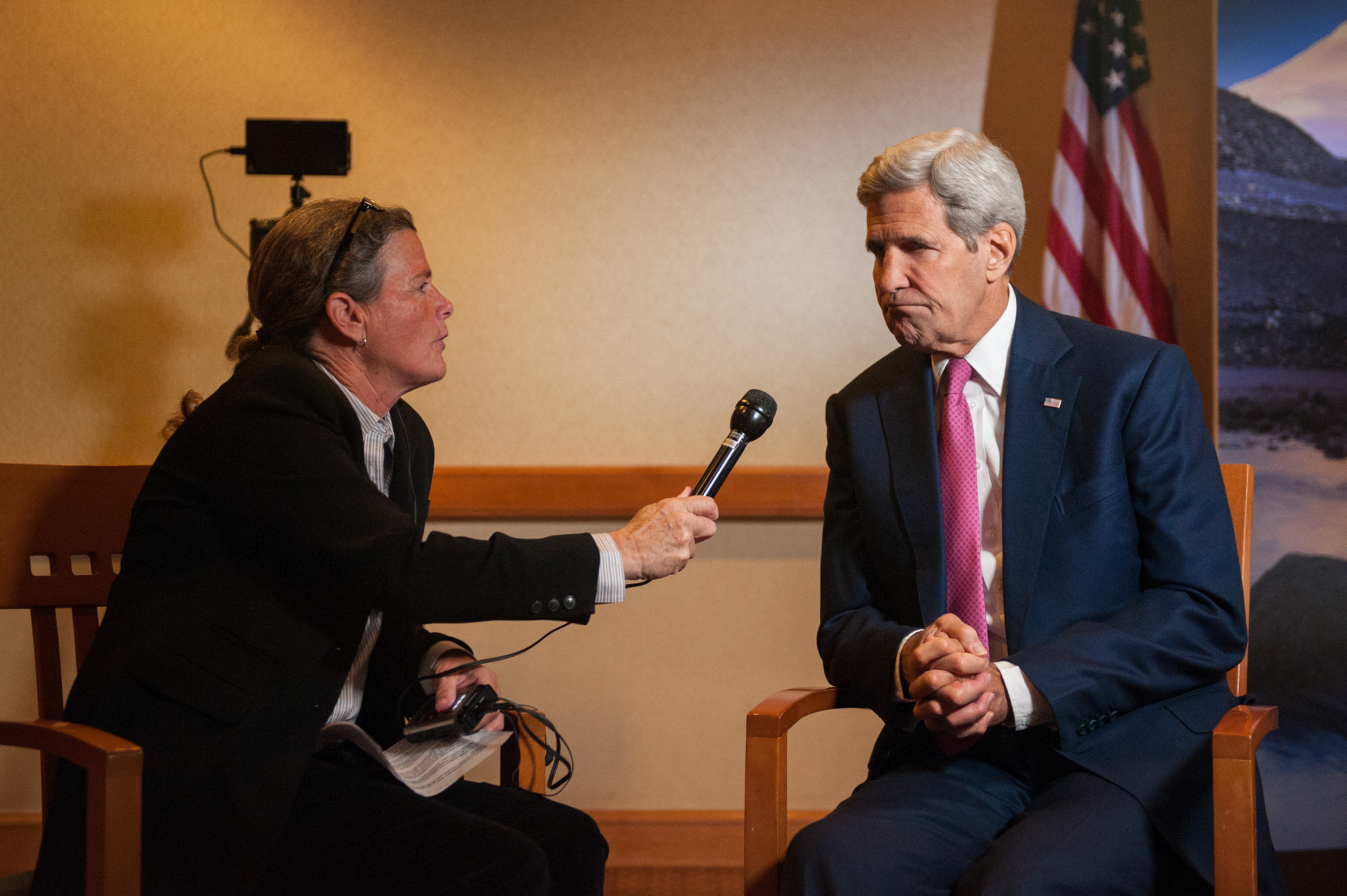 U.S. Secretary of State John Kerry sits for an interview with NPR's Elizabeth Arnold in Anchorage, Alaska, on August 30, 2015. [State Department Photo / Public Domain]